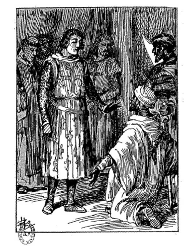 Illustration 01 for Raymond Roussel's Nouvelles Impressions d'Afrique.